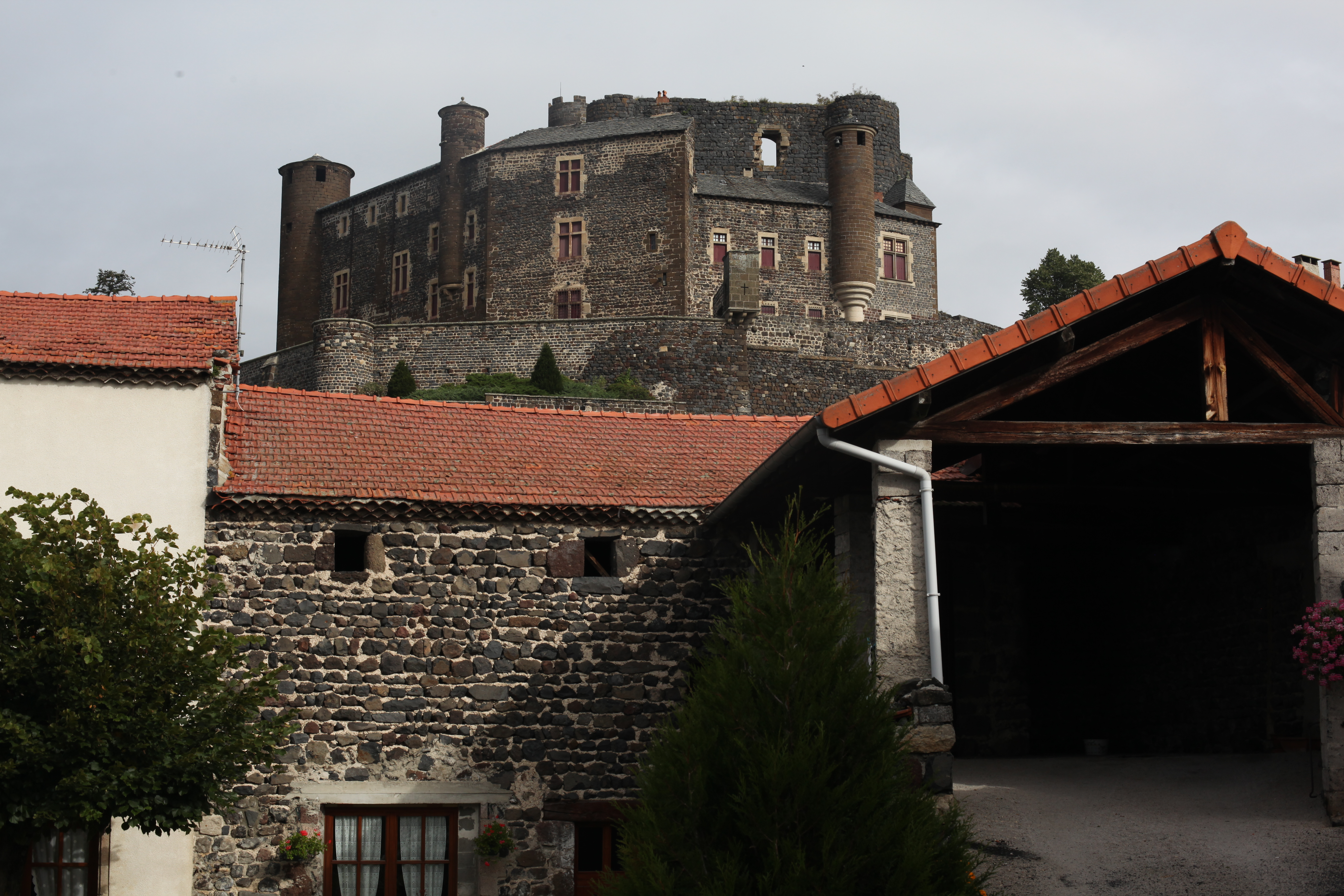 Bouzols castle.